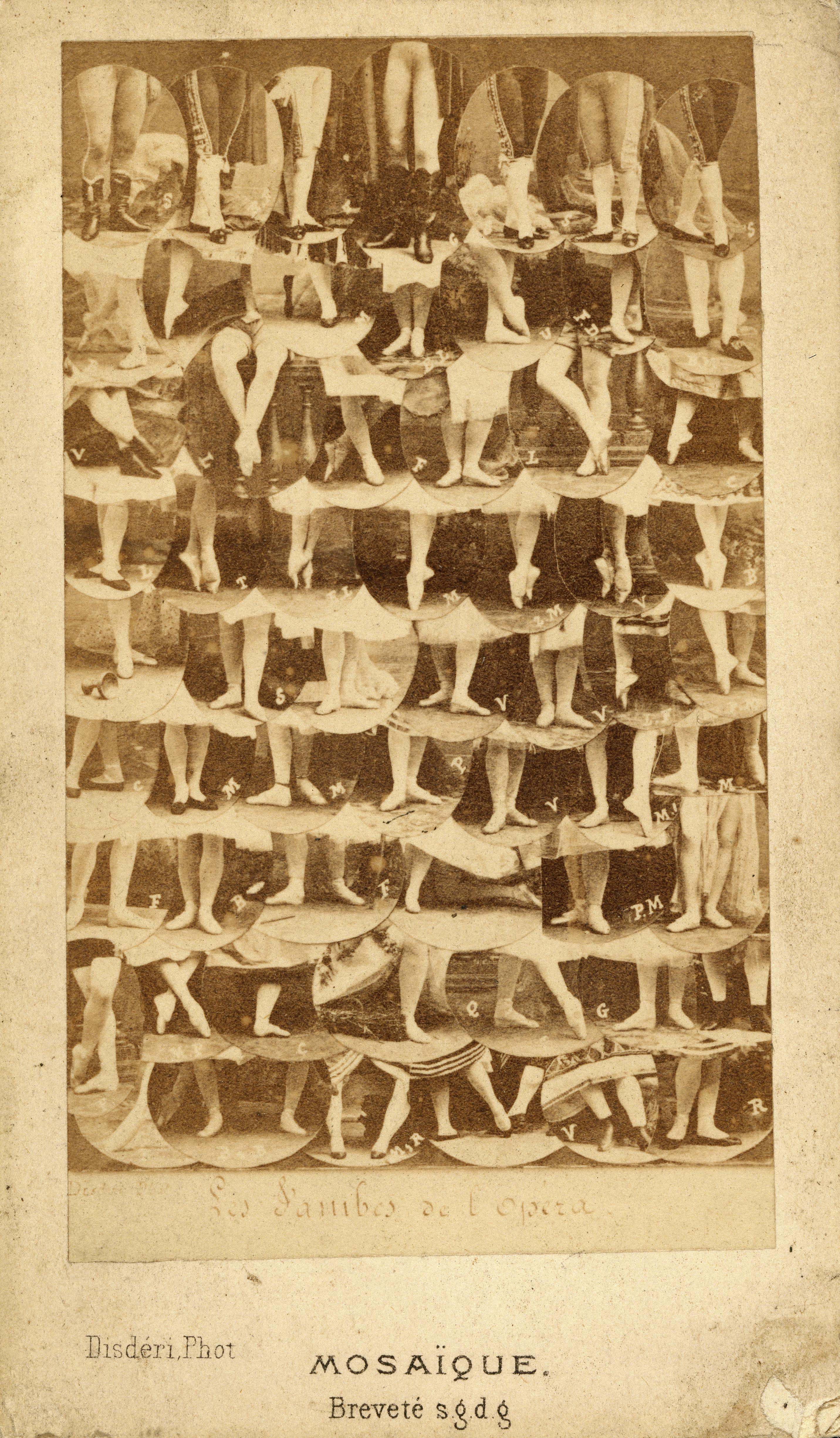 Les Jambes de l'opera; André Adolphe-Eugène Disdéri (French, 1819 - 1889); about 1862; Albumen silver; object No. 84.XD.428.12 from Getty Images ...